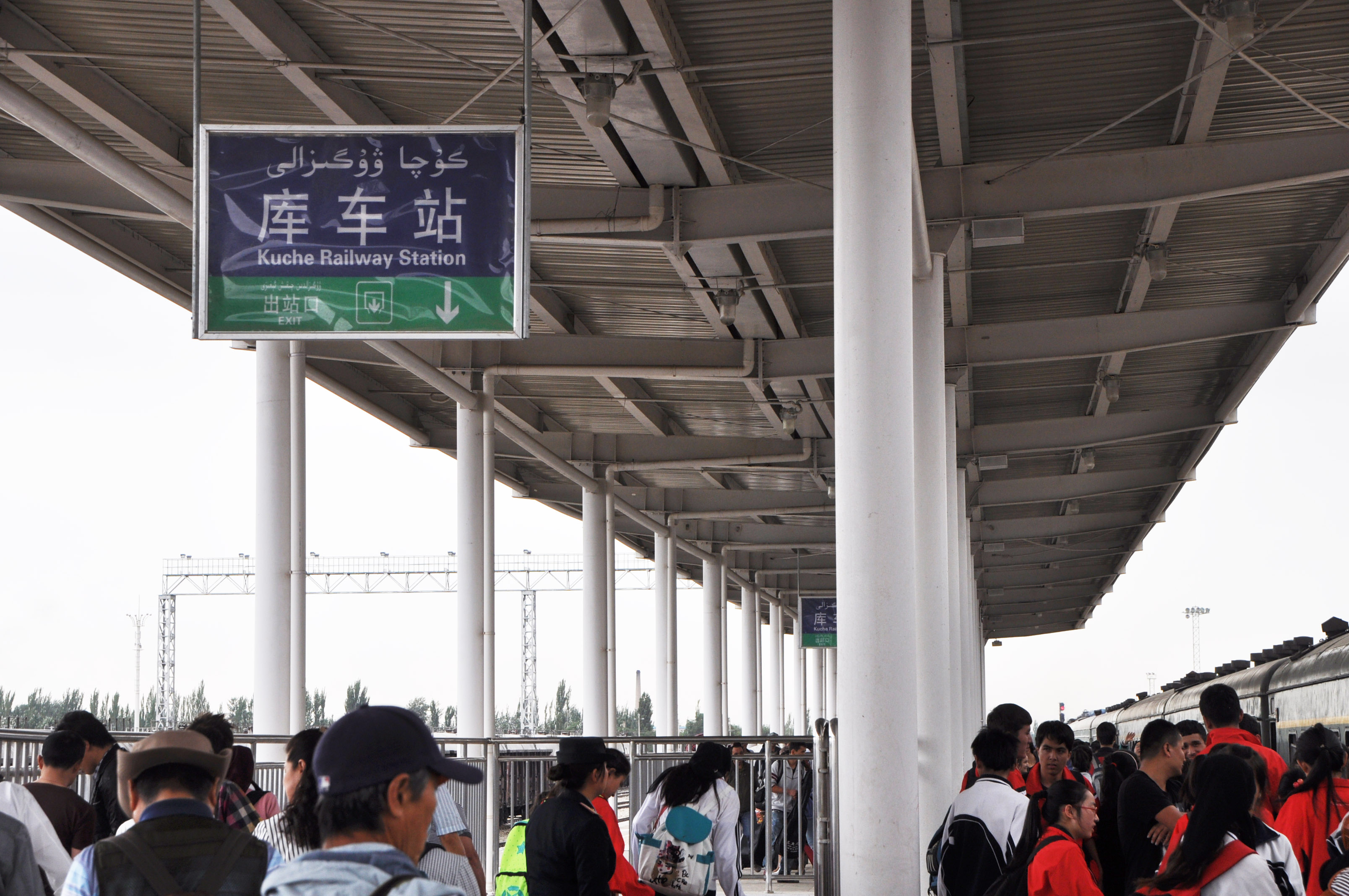 An express tran arrives at Kuche (Kuqa) railway station, Xinjiang, China